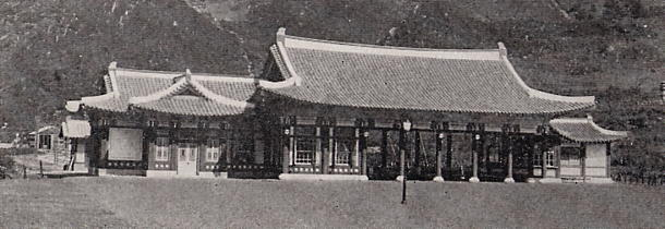 Naegumgang station on the Kumgangsan Electric Railway (closed 1944).